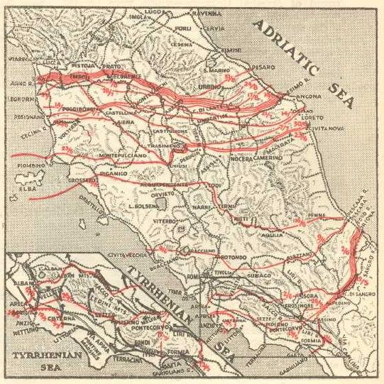 Map of the Italian front in summer 1944, showing German retreat.